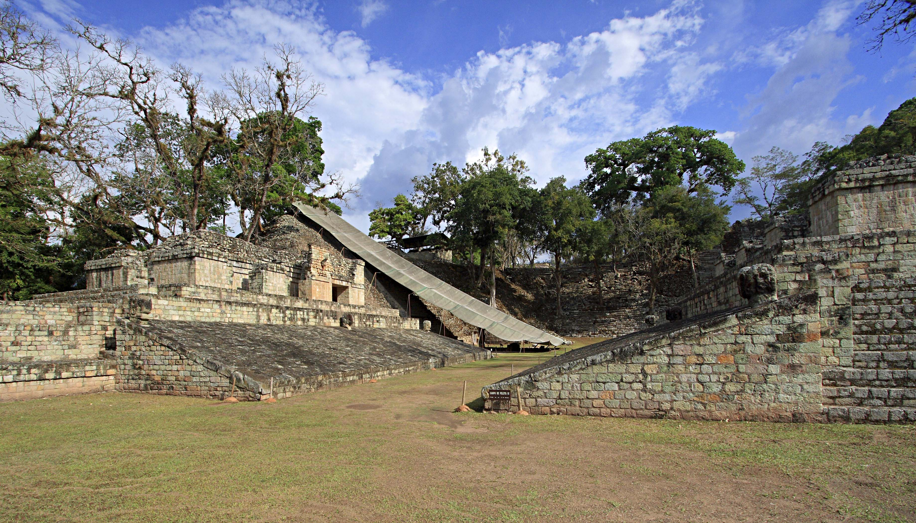 A view of the northern end of the Copan Ball Court